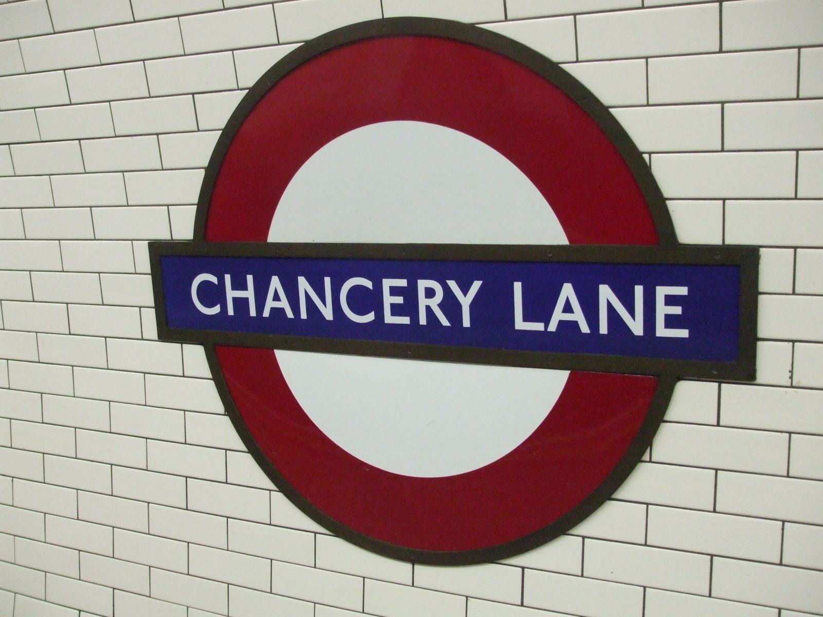 Roundel on Chancery Lane tube station eastbound platform